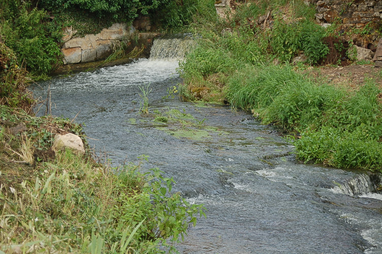 The Chignon (beck)